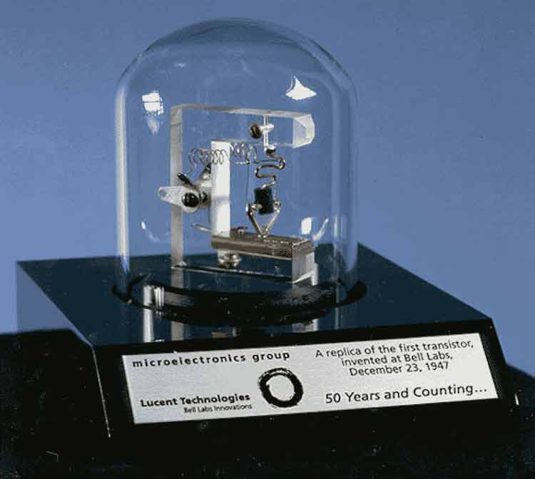 Replica of the firt transistor.